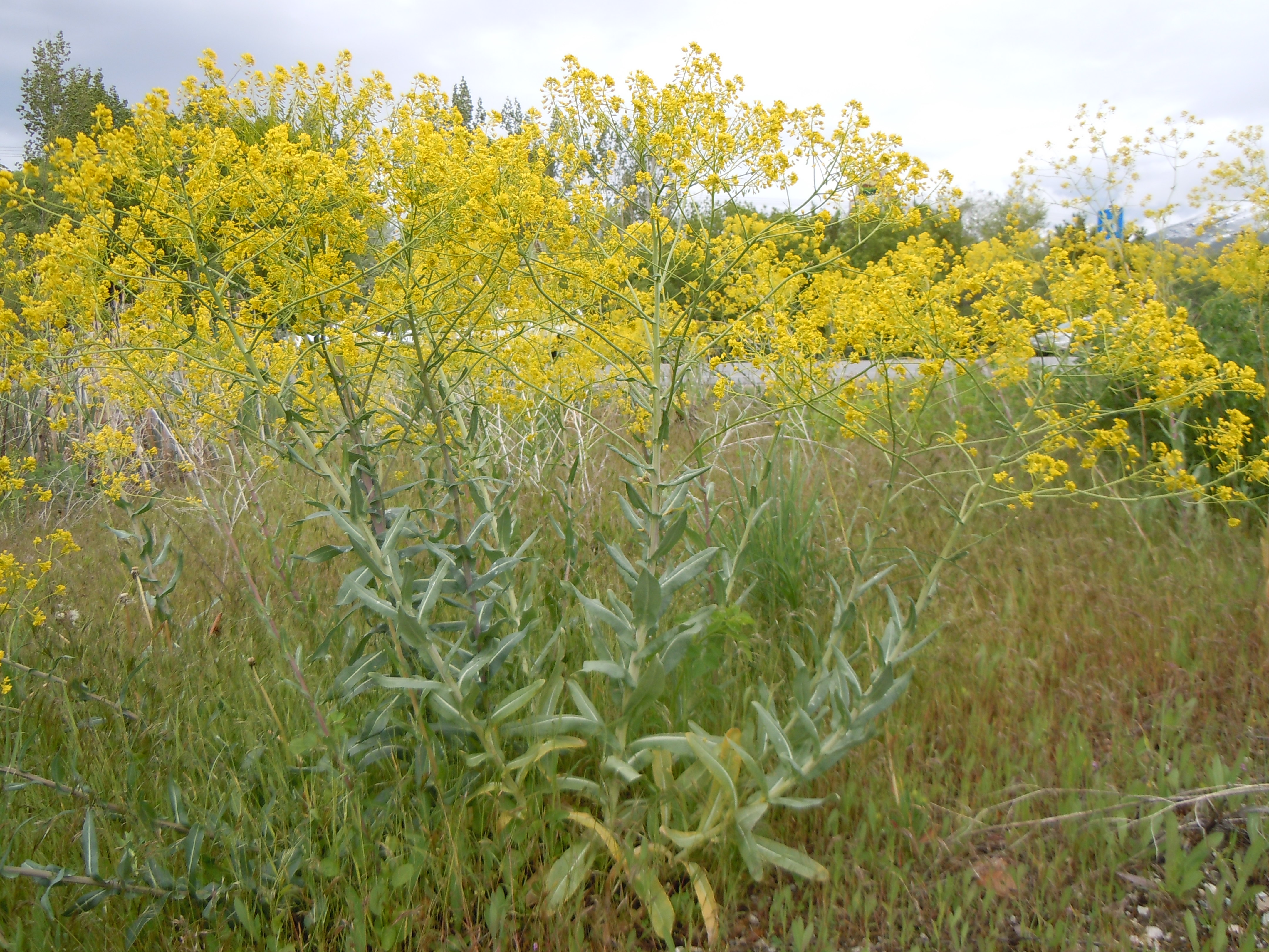 This putative invasive species grows strictly in highly disturbance-prone settings.